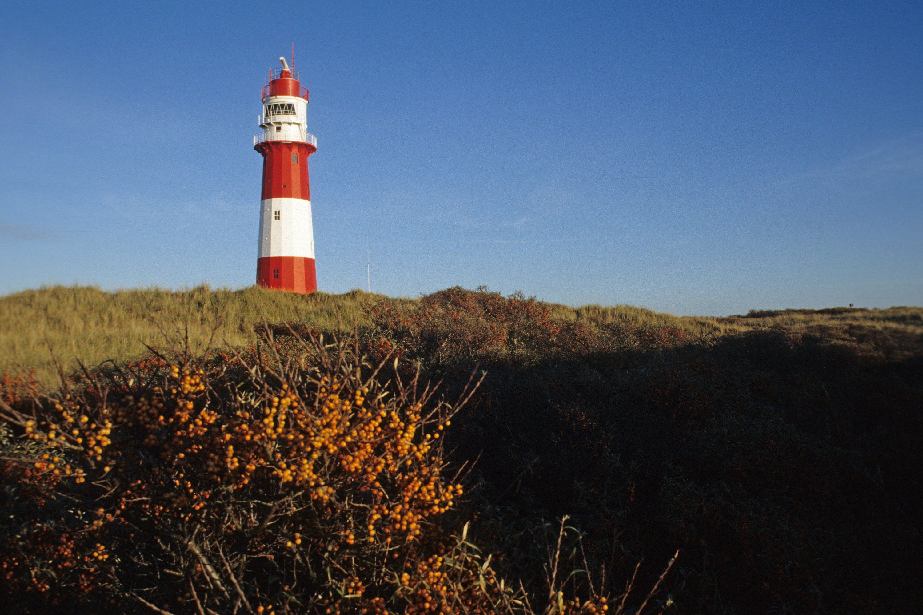 Little lighthouse Borkum